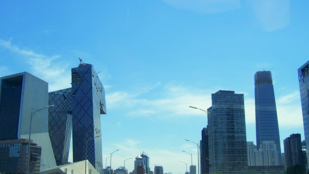 Beijing's CBD showing both the CCTV towers and China World Tower 3 near completion